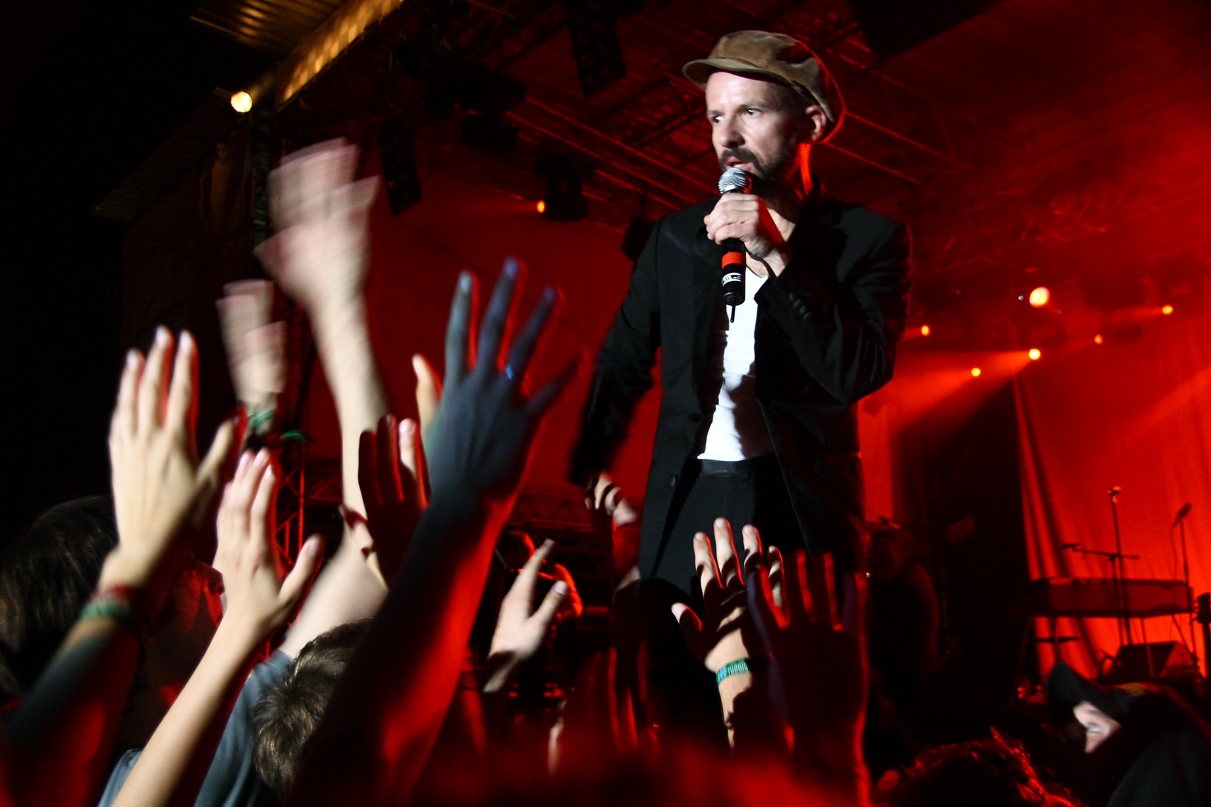 Stefan Hantel (Shantel) at TFF Rudolstadt 2012.